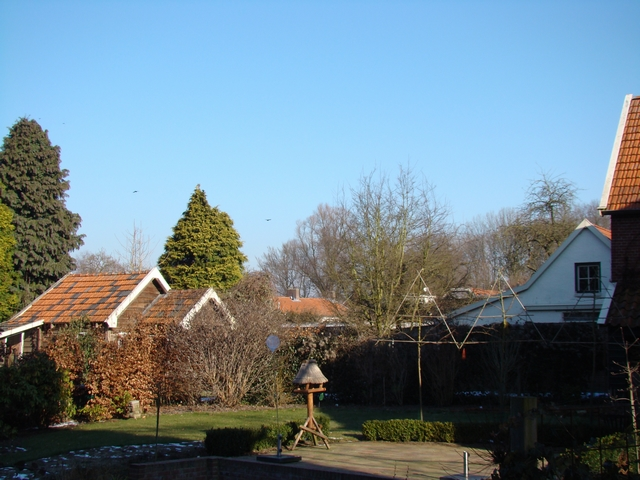 Ossenkop, Bredevoort